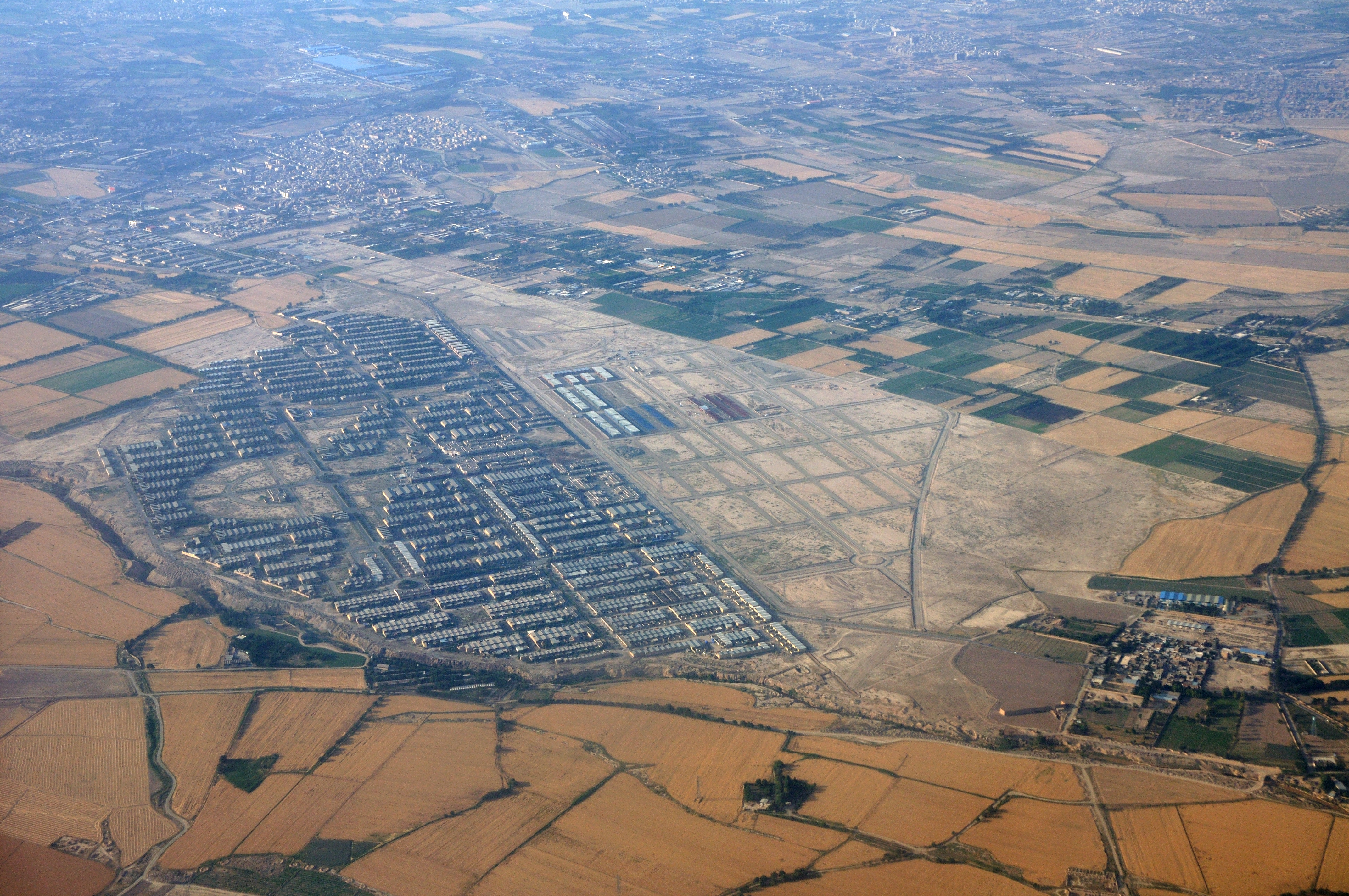 Iran, aerial view of Naseriyeh while approaching Tehran's Mehrabad airport.